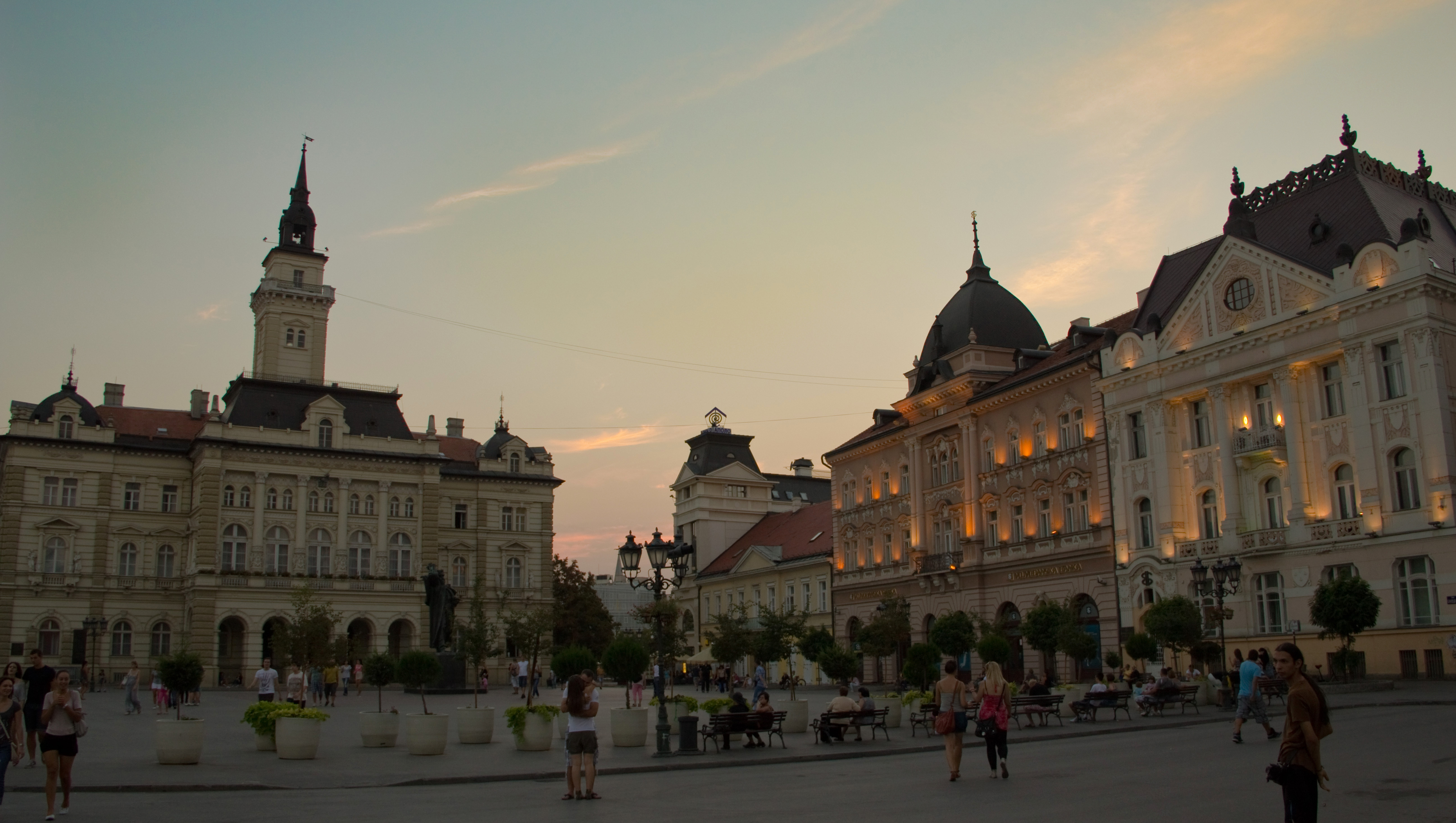 Freedom Square